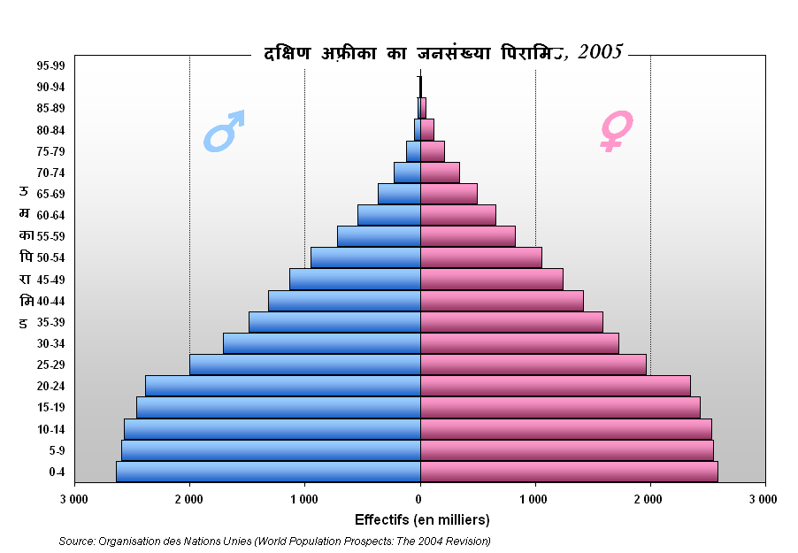 South Africa Population pyramid, 2005